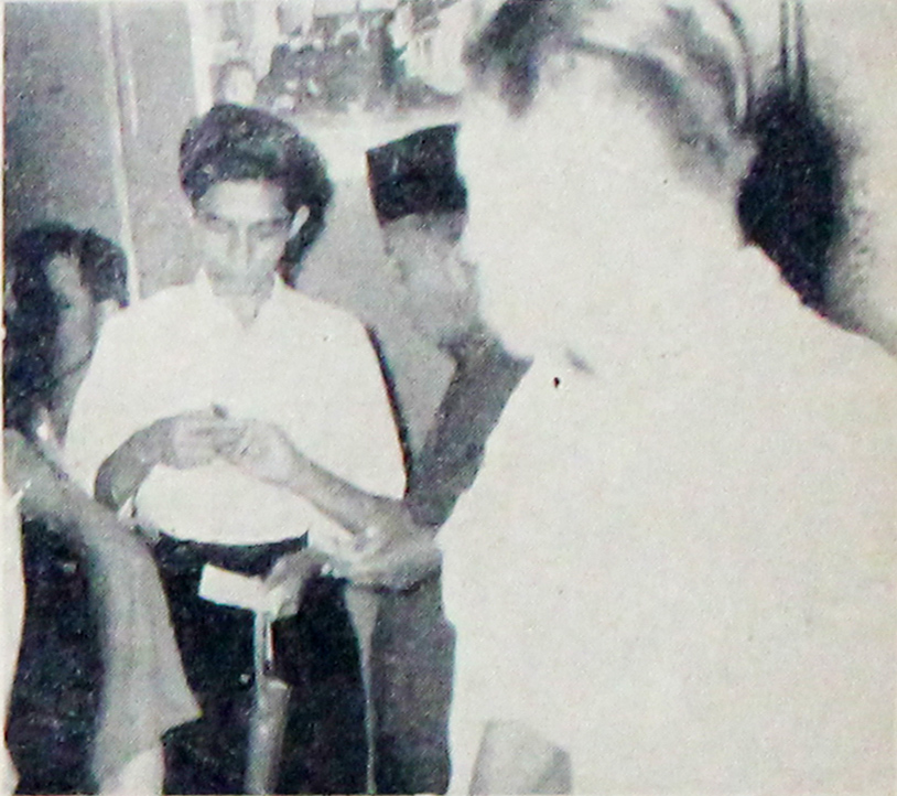 Rd Ariffien being interviewed by a Dunia Film reporter after a screening of Meratjun Sukma